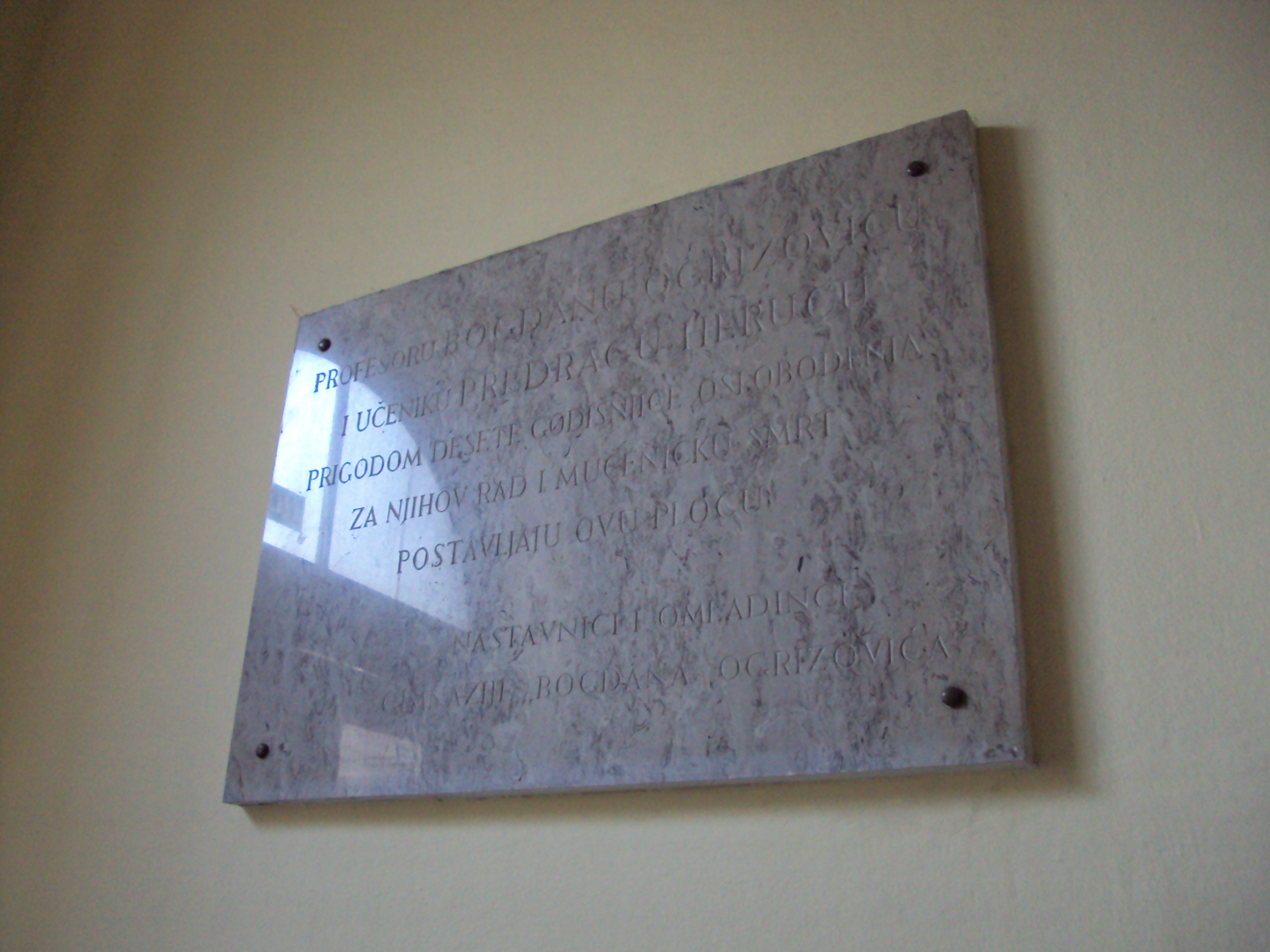 Memorial plaque in the atrium of the 5th High School in Zagreb, dedicated to antifascists, professor Bogdan Ogrizović and pupil Predrag Heruc.